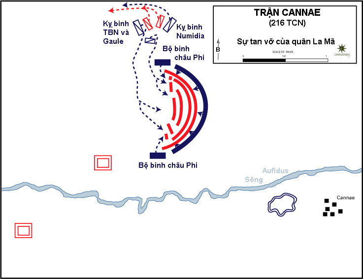 Vietnamese version of Image:Battle cannae destruction.gif